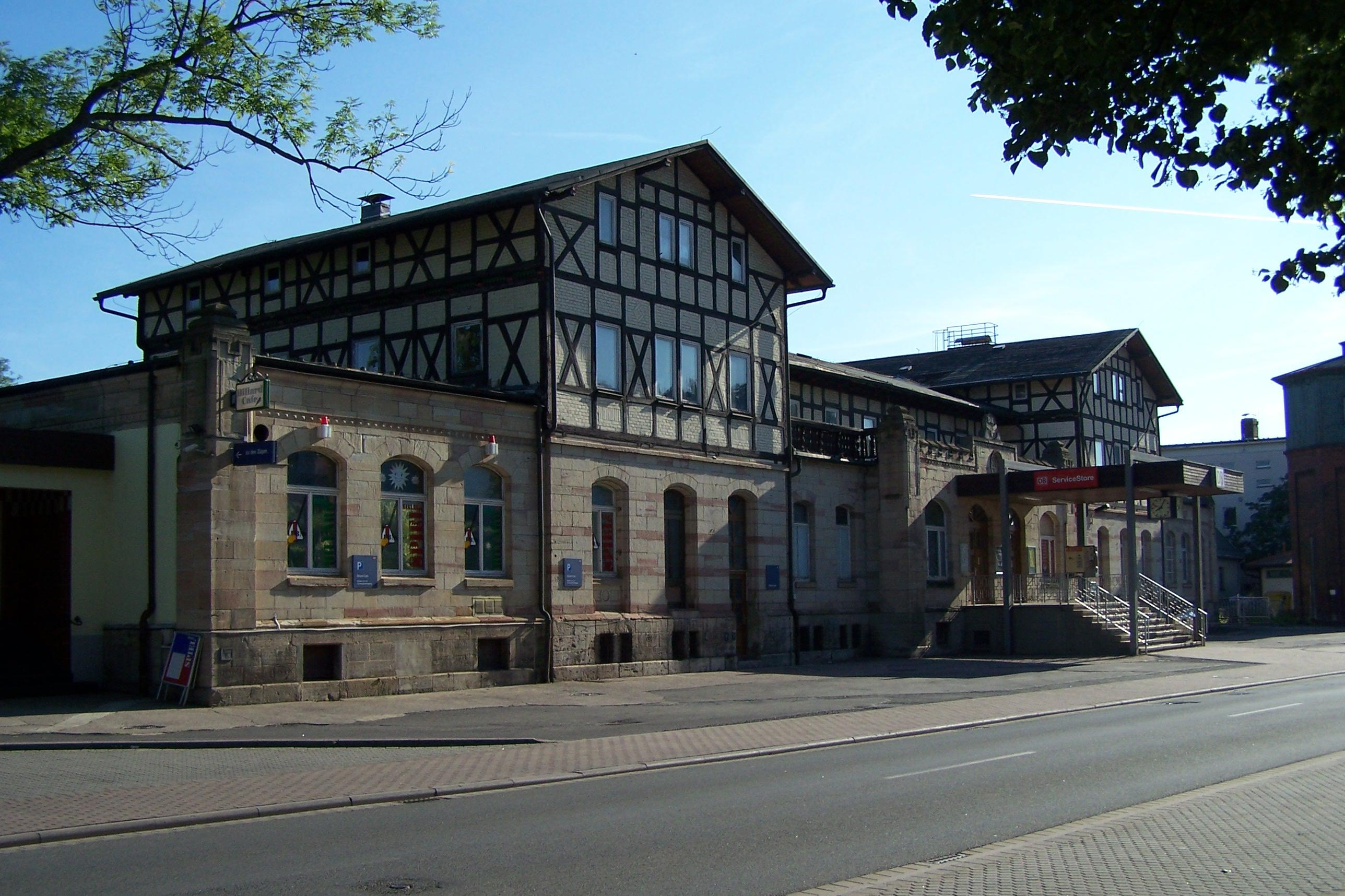 The train station in Bad Salzungen.